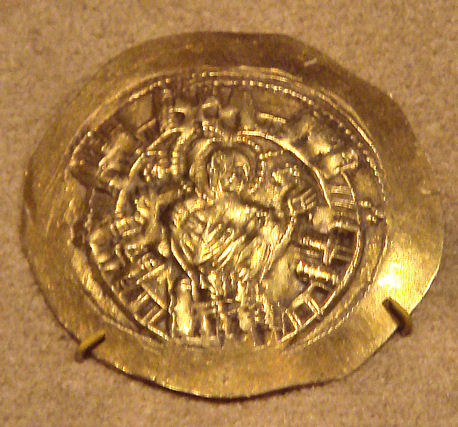 Michael VIII Paleologus coin with Virgin Mary Over the Walls Of Constantinople